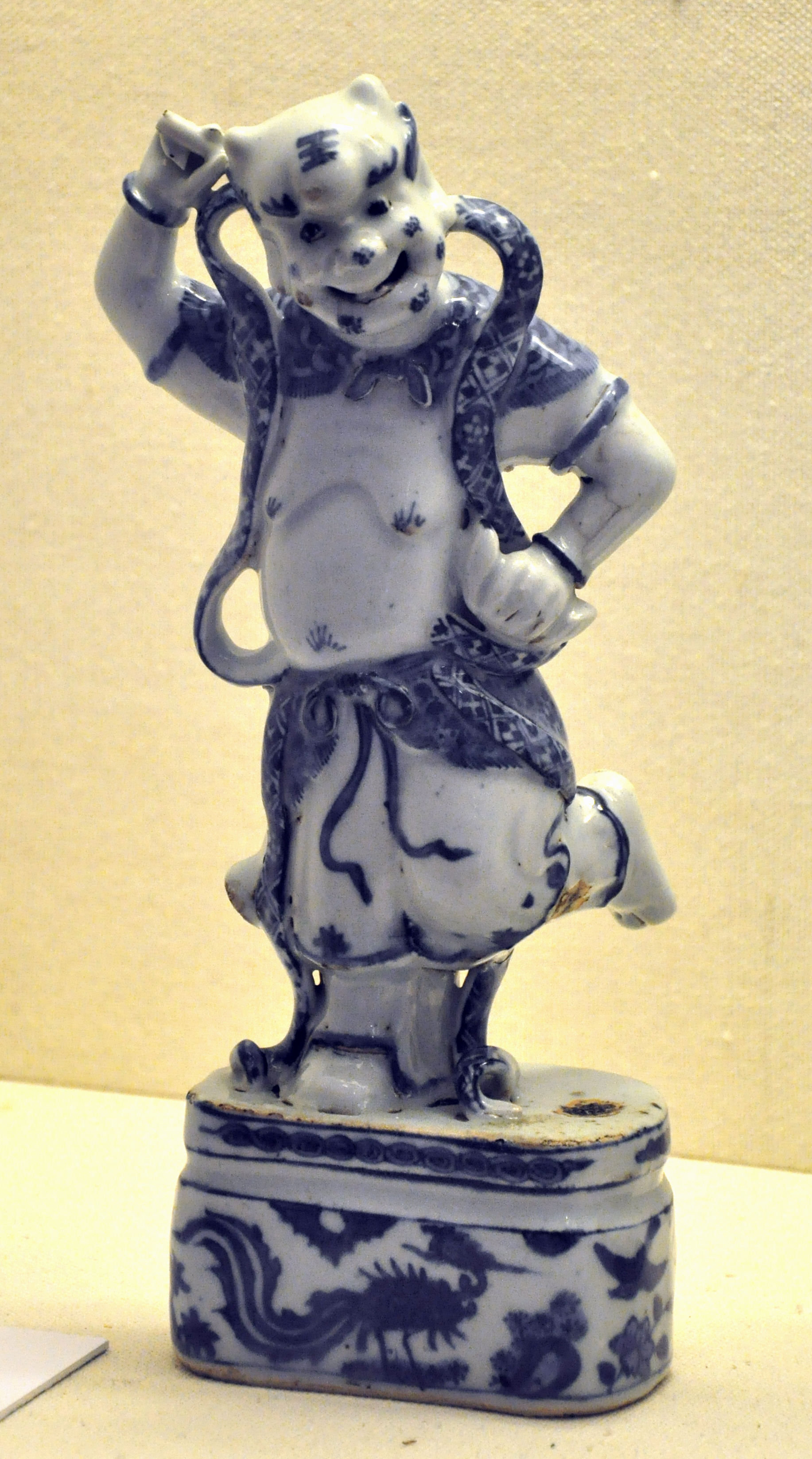 Kuixing; blue and white porcelain, China, Ming Dynastiy, 2nd half of 16th century; Museum für Angewandte Kunst Frankfurt am Main, Inv. No. 10615 (gift if Carl Cords, 1943)